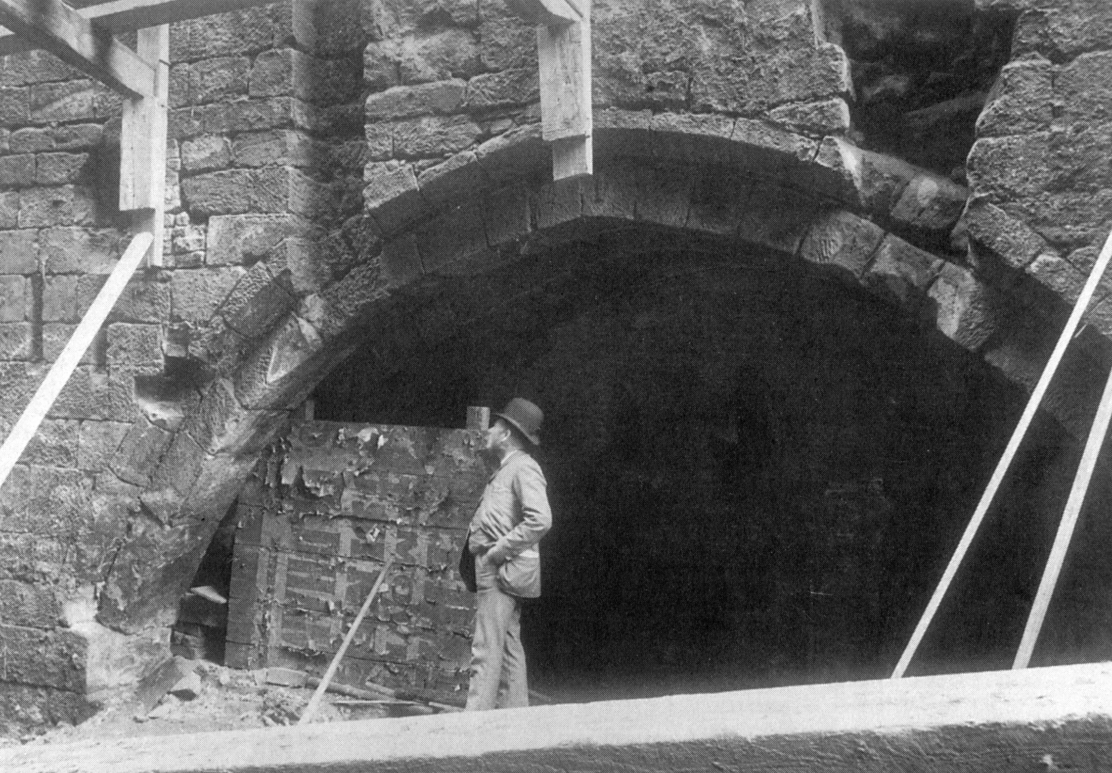 The remains of Hanging Bridge (an arch bridge) were revealing during excavations in 1892.